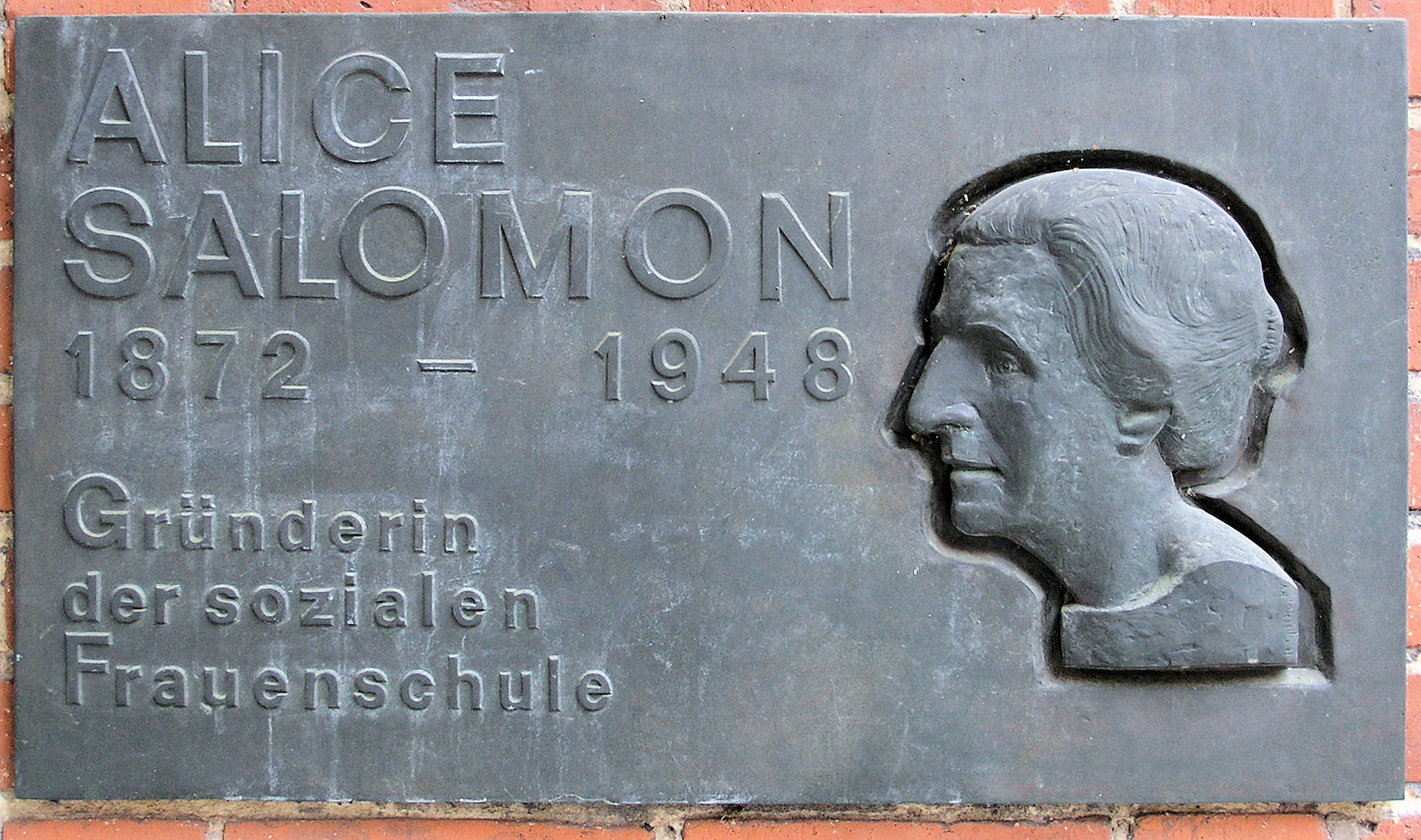 Memorial plaque, Alice Salomon, Karl-Schrader-Straße 7, Berlin-Schöneberg, Germany Koordinate:52°29′29″N 13°21′7″E / 52.49139°N 13.35194°E